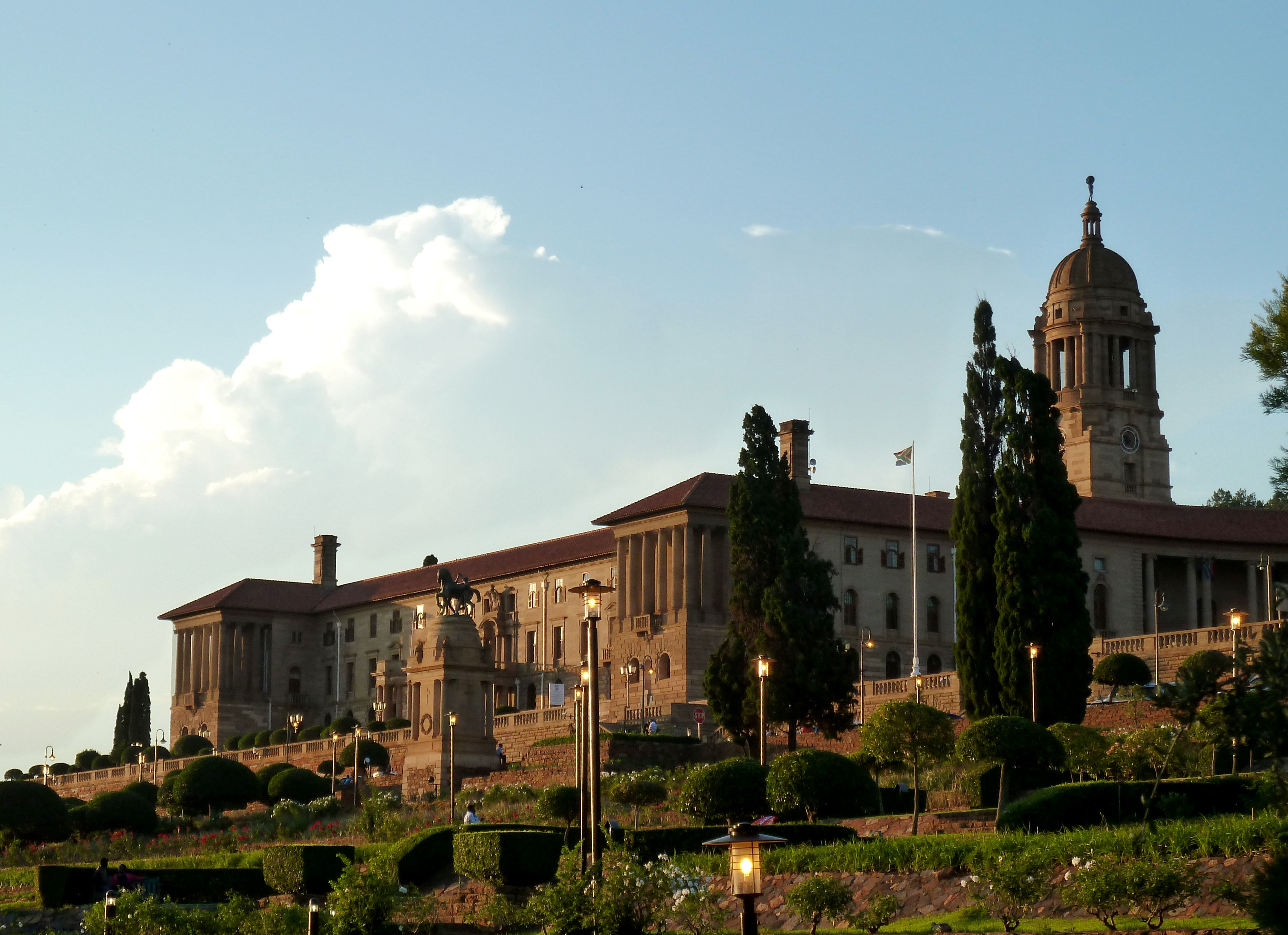 West wing of the Union Buildings at dusk, Pretoria